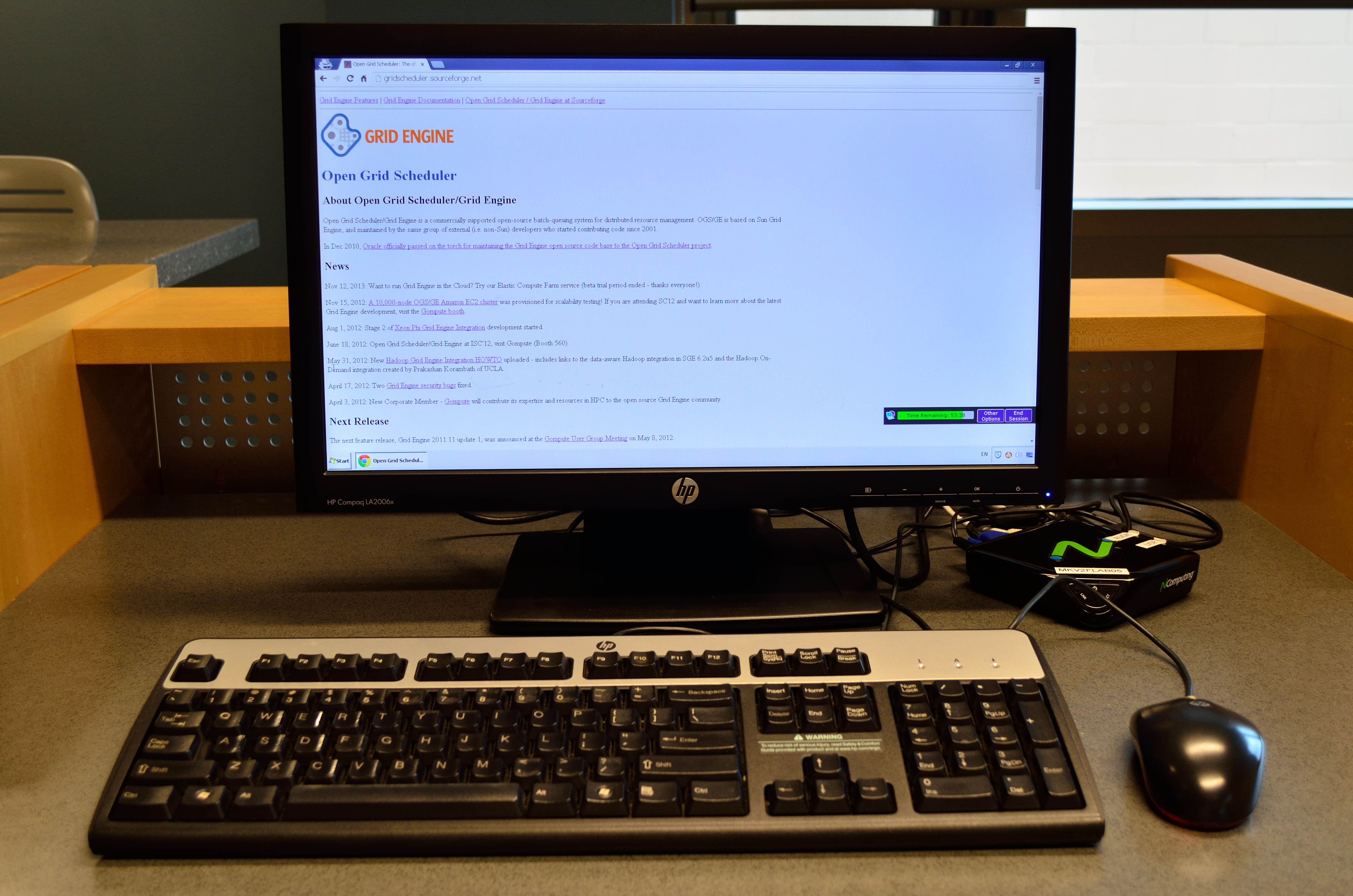 An NComputing L300 thin client